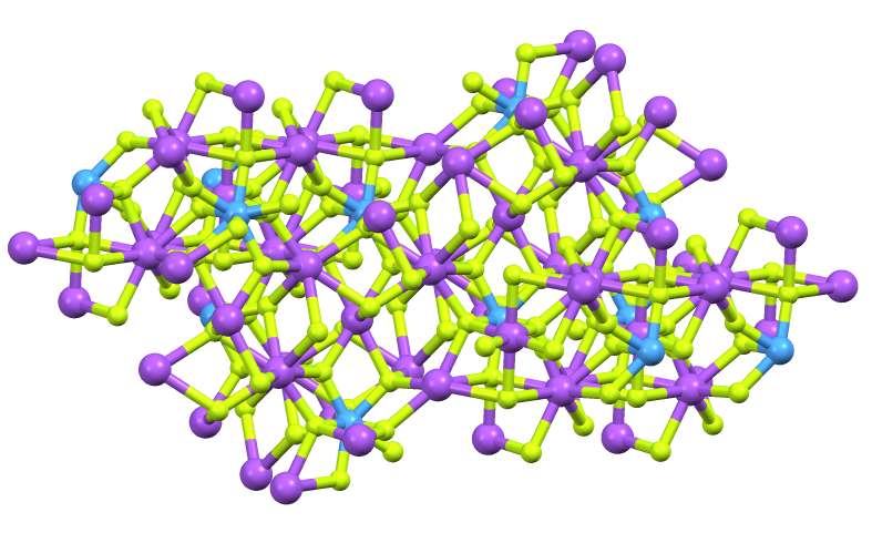 Portion of Na3TaF8 structure, highlighting crosslinking of Na+ (violet) and Ta(V) (turquoise) by fluoride (green)